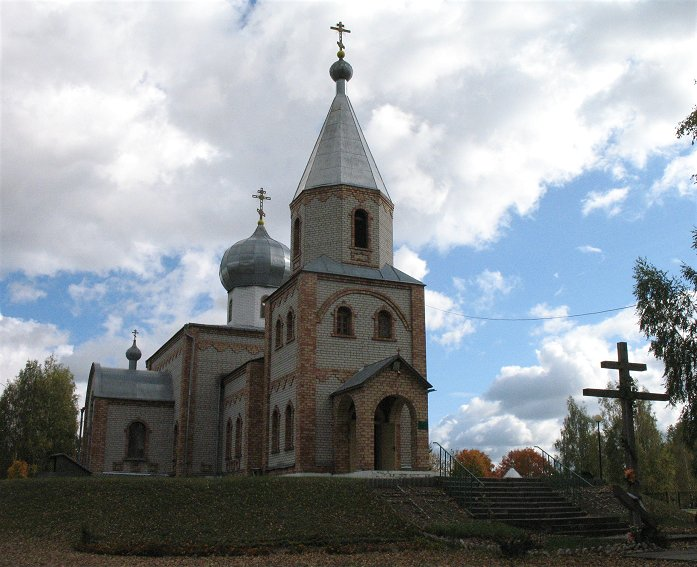 Orthodox church in Asipovichy (Асiповiчы; Осиповичи) in Mogilev region.